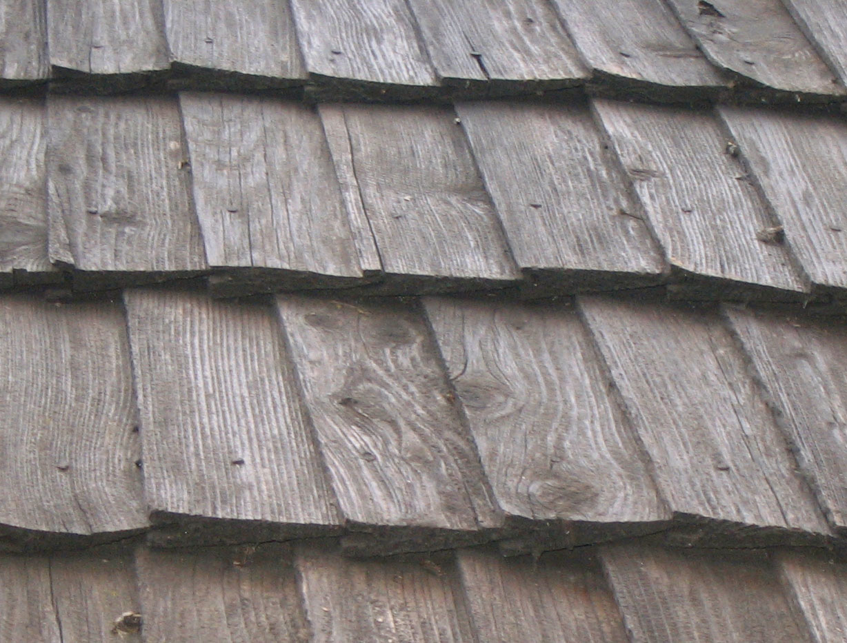 Wooden shingles